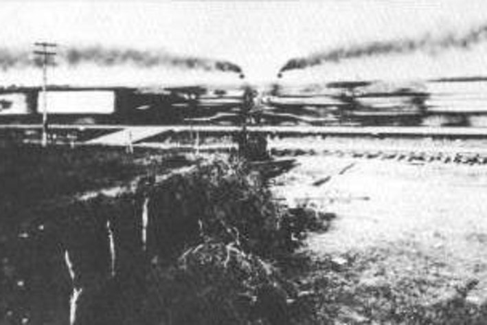 The moment of impact of the train crash show at Crush, Texas on September 15, 1896